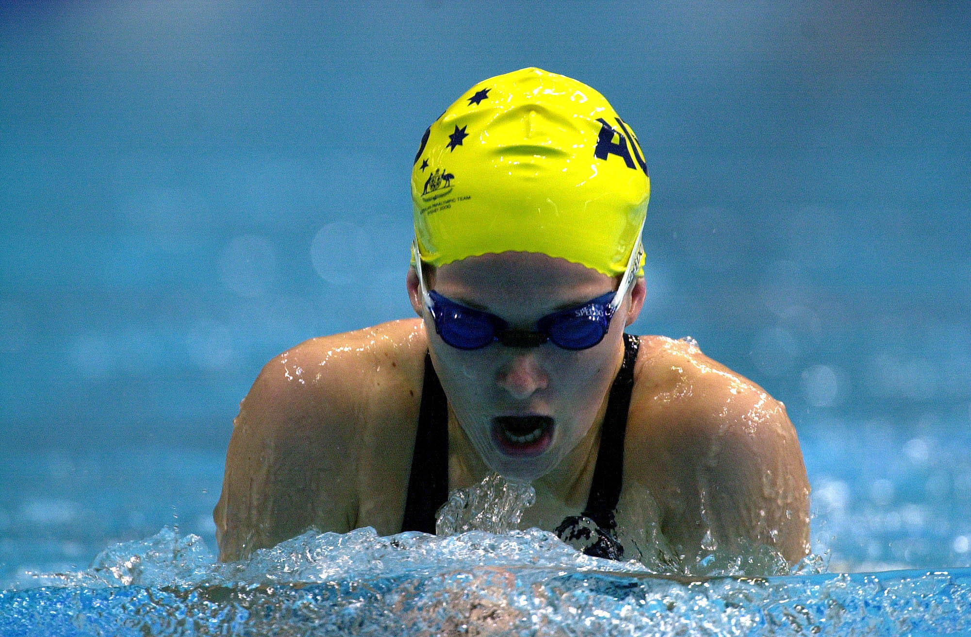 Action shot of Australian swimmer Dianna Ley during the 200m medley SM9 event, 2000 Sydney Paralympic Games, Day 02